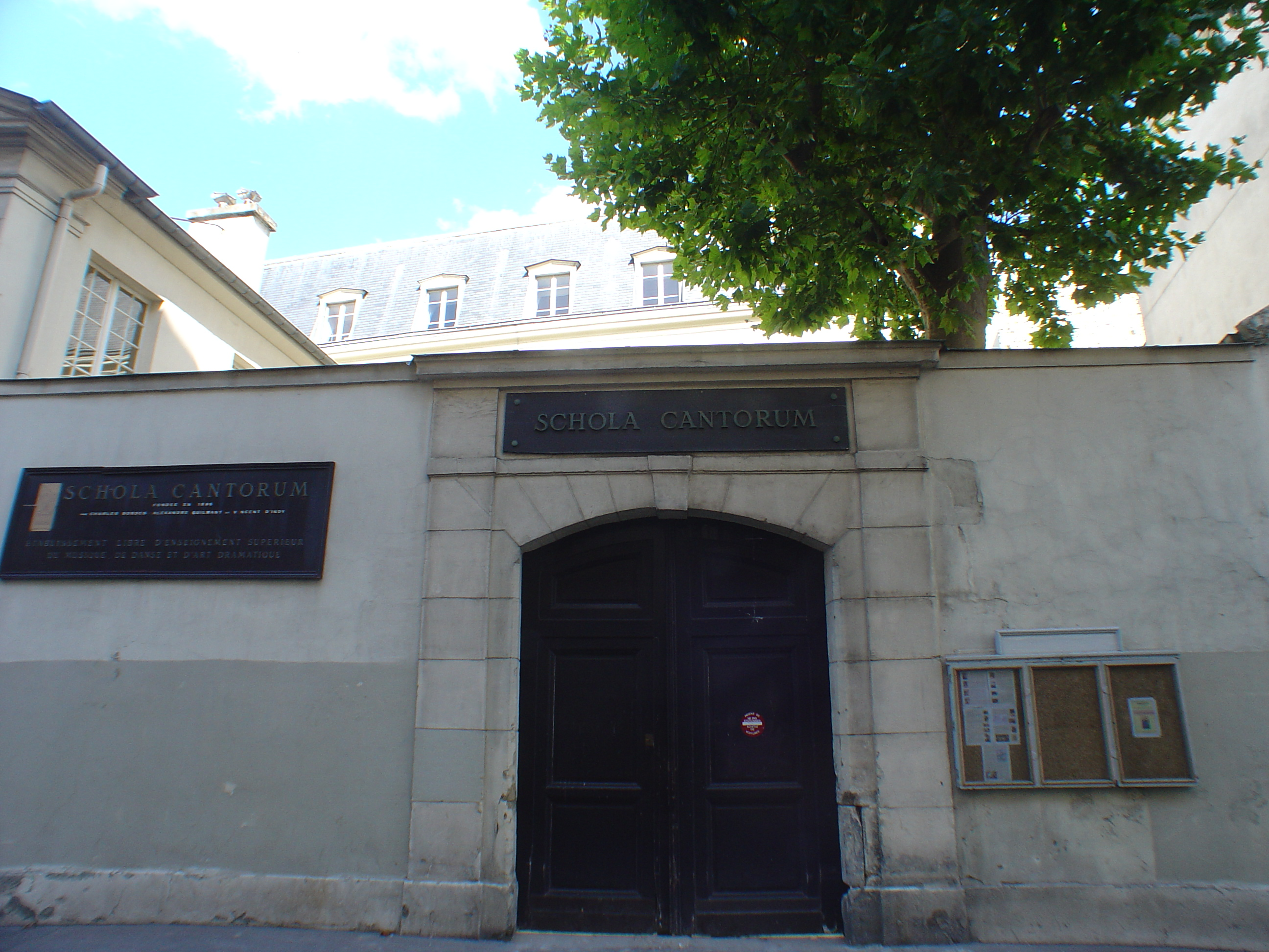 This is the gate of Schola Canthorum in Paris.